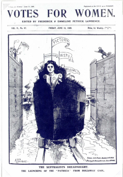 Patricia Woodlock was released from Holloway in May 1909. Campain organised by Ada Flatman